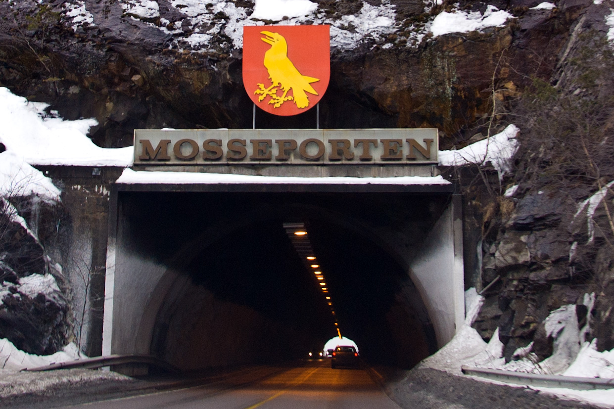 Mosseporten tunnel in Moss, Østfold, Norway.